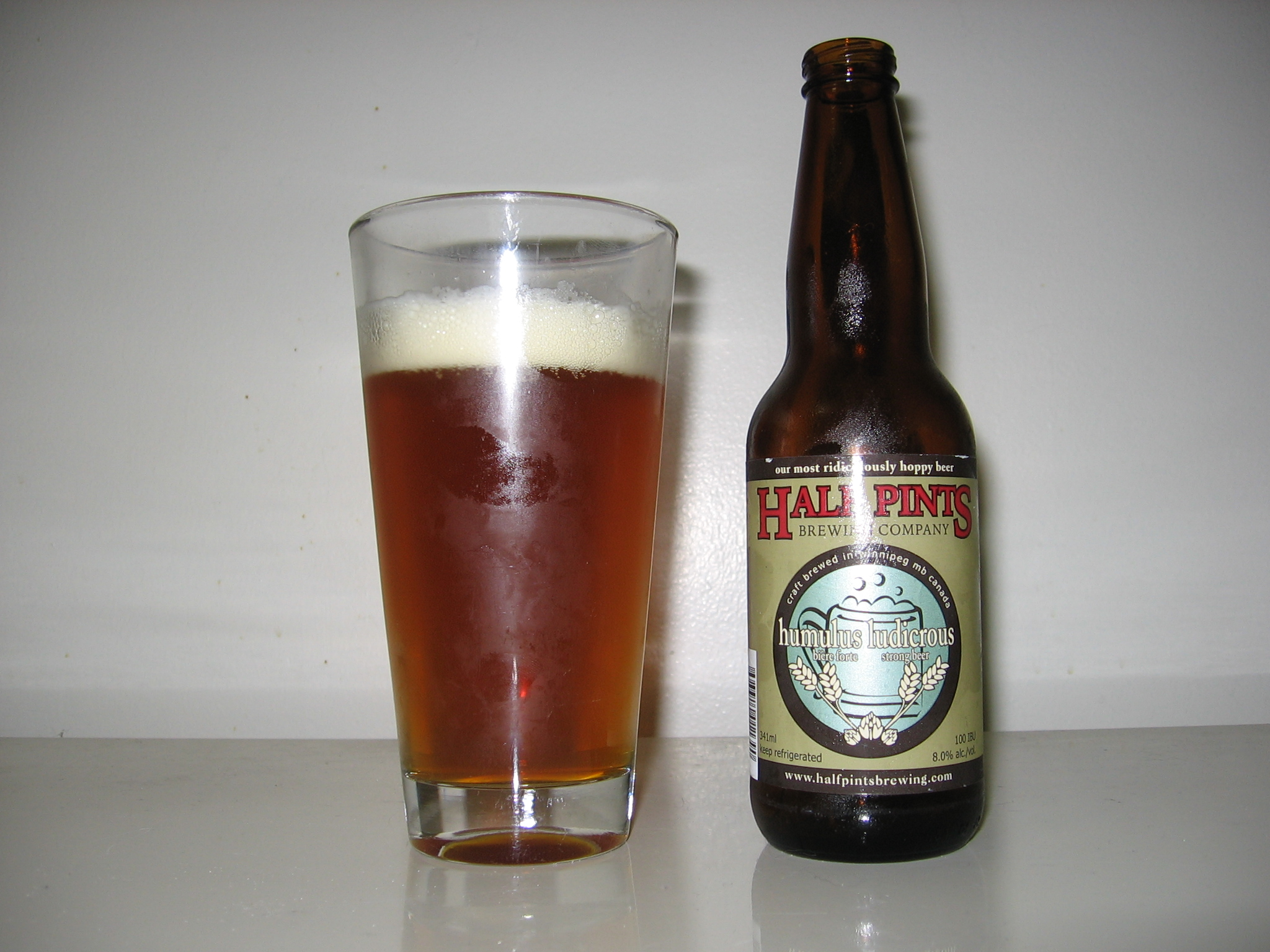 Photo of the Humulus Ludicrous beer, alongside a glass to show its colour and head.